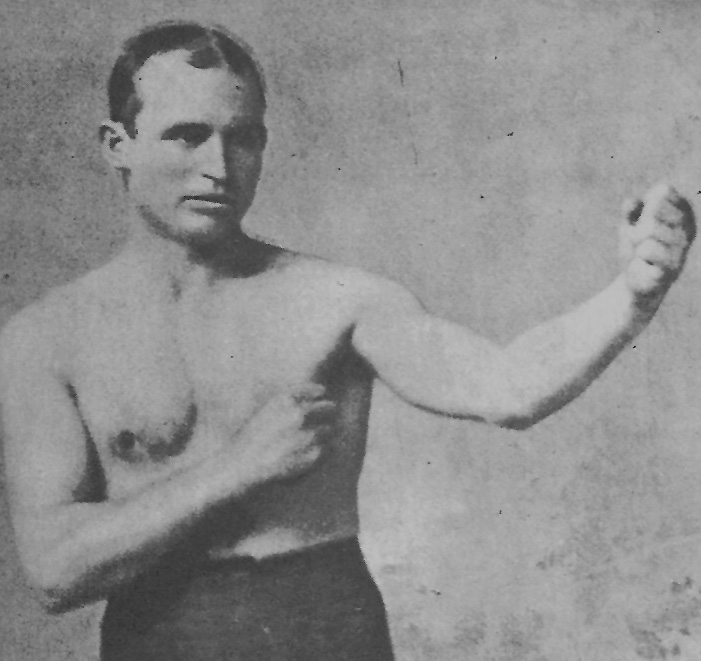 This photo is a shirtless boxing pose of Ferns with hair parted in center in black boxing trunks leading with his left.